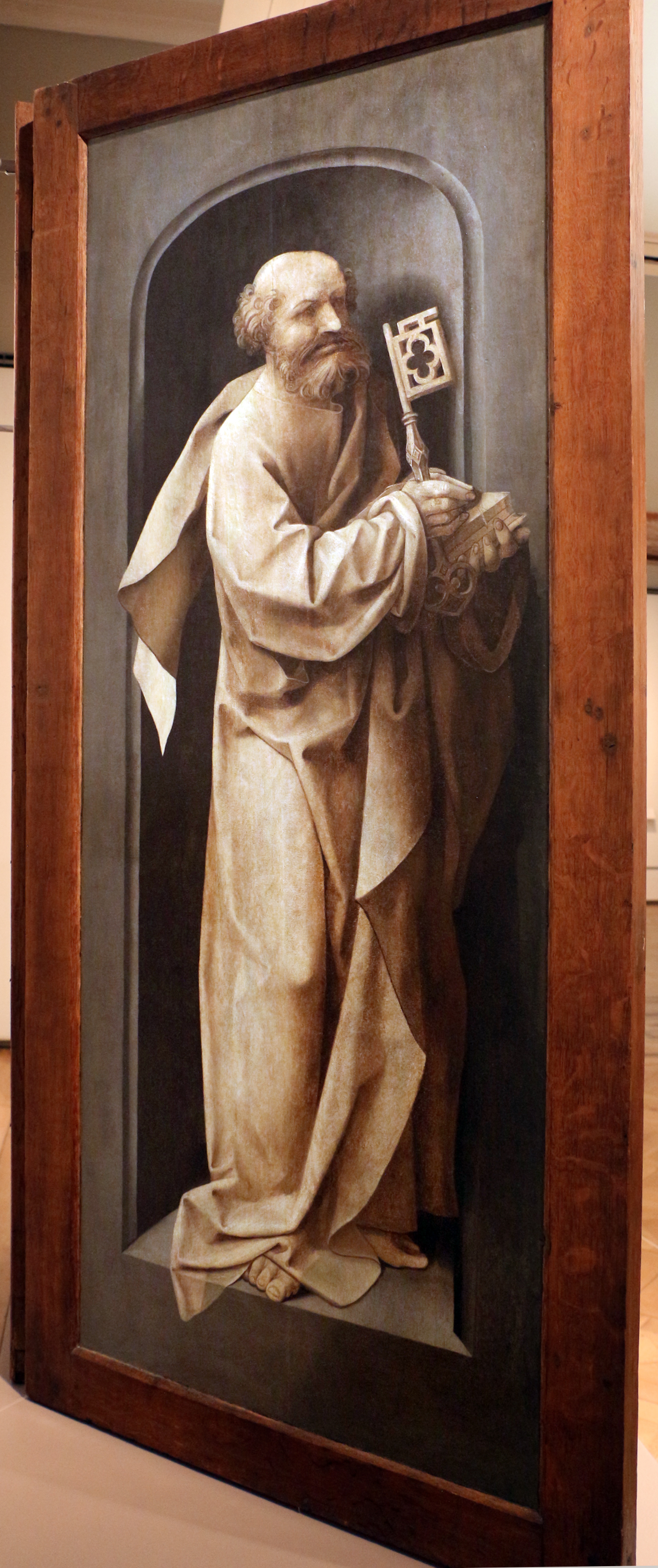 Flemish paintings in the Museu Nacional de Arte Antiga